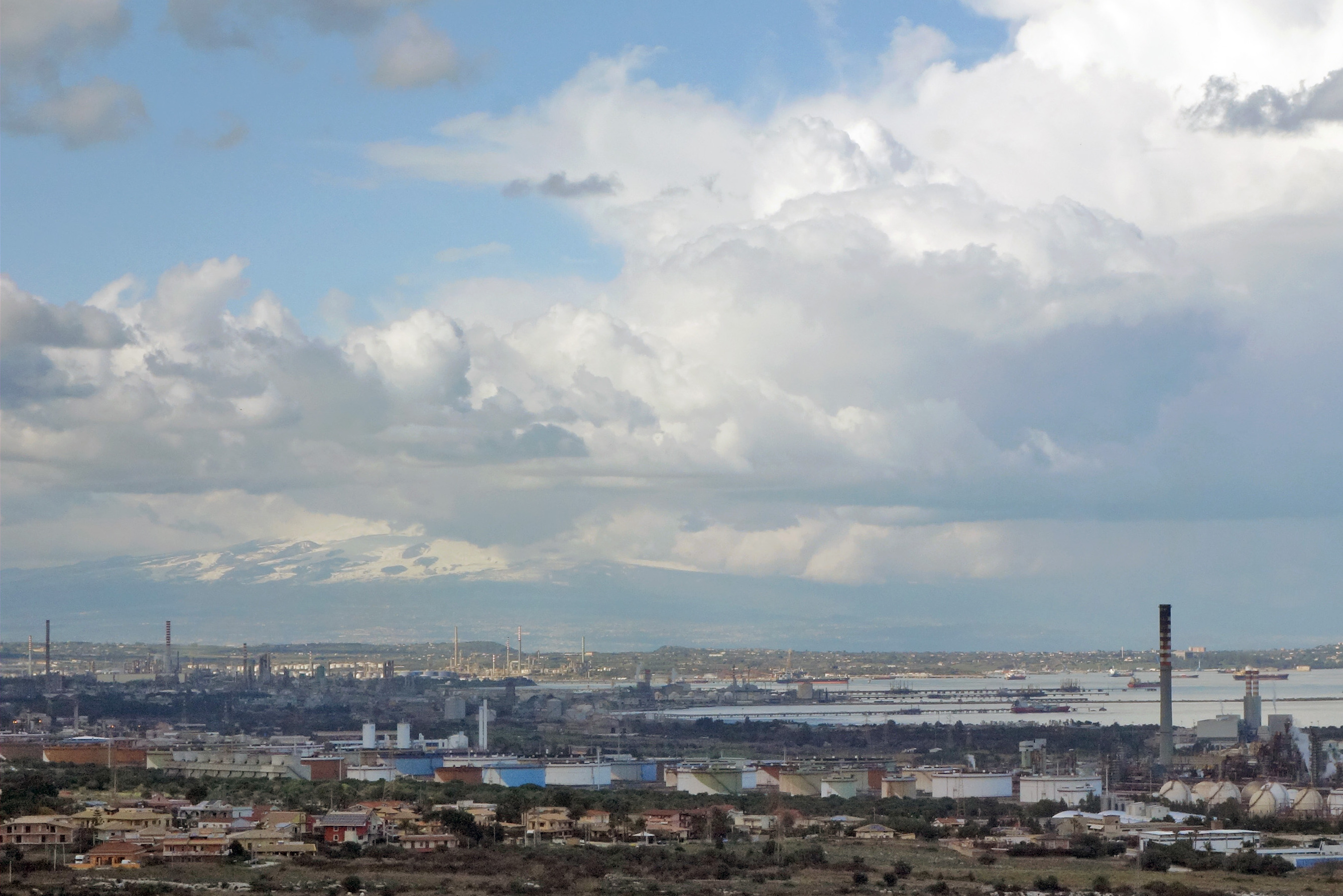 The industrial complex of Augusta-Priolo in Sicily, Italy. View from Castello Eurialo to the north, vulcano Etna in the background.